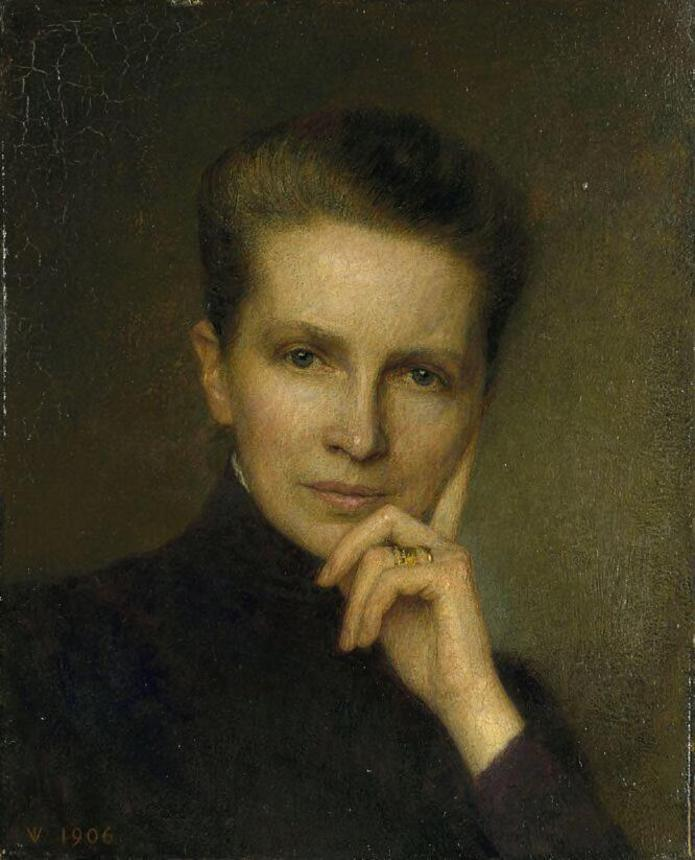 Portrait of Klazina Christina Boxman-Winkler, by Jan Veth (1864-1925)